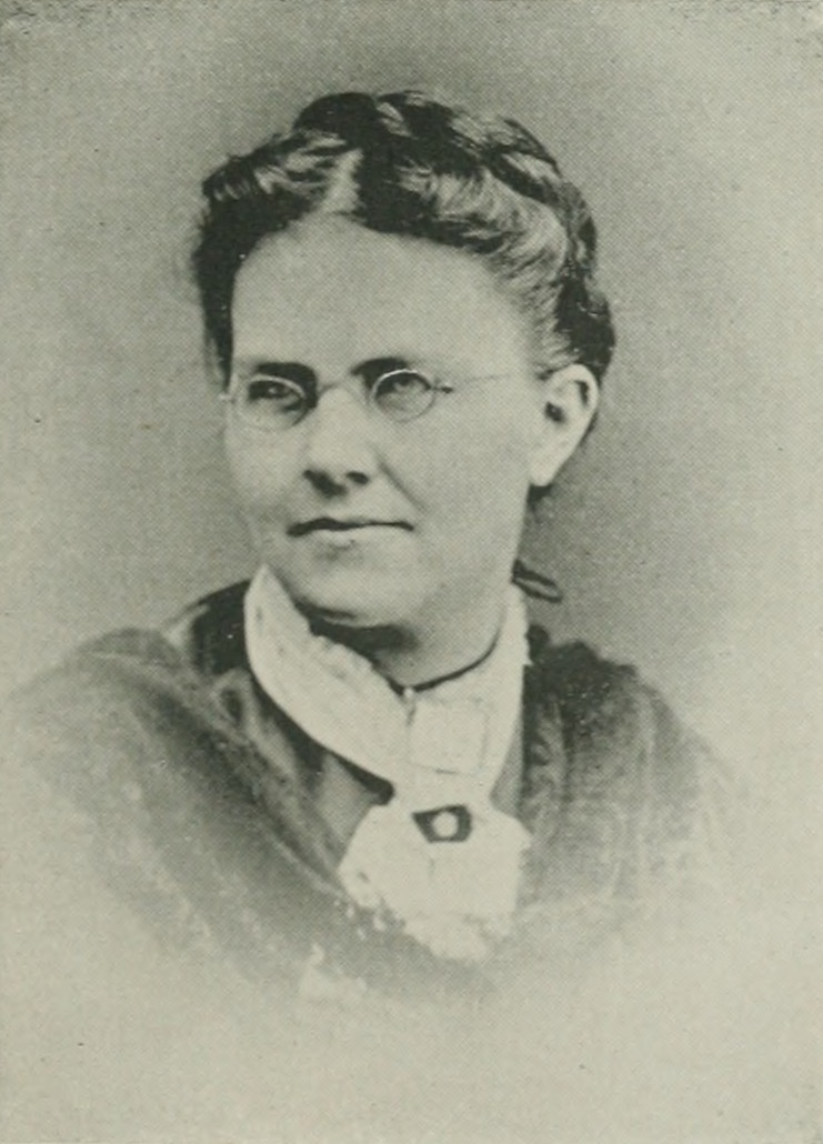 A woman of the century.djvu